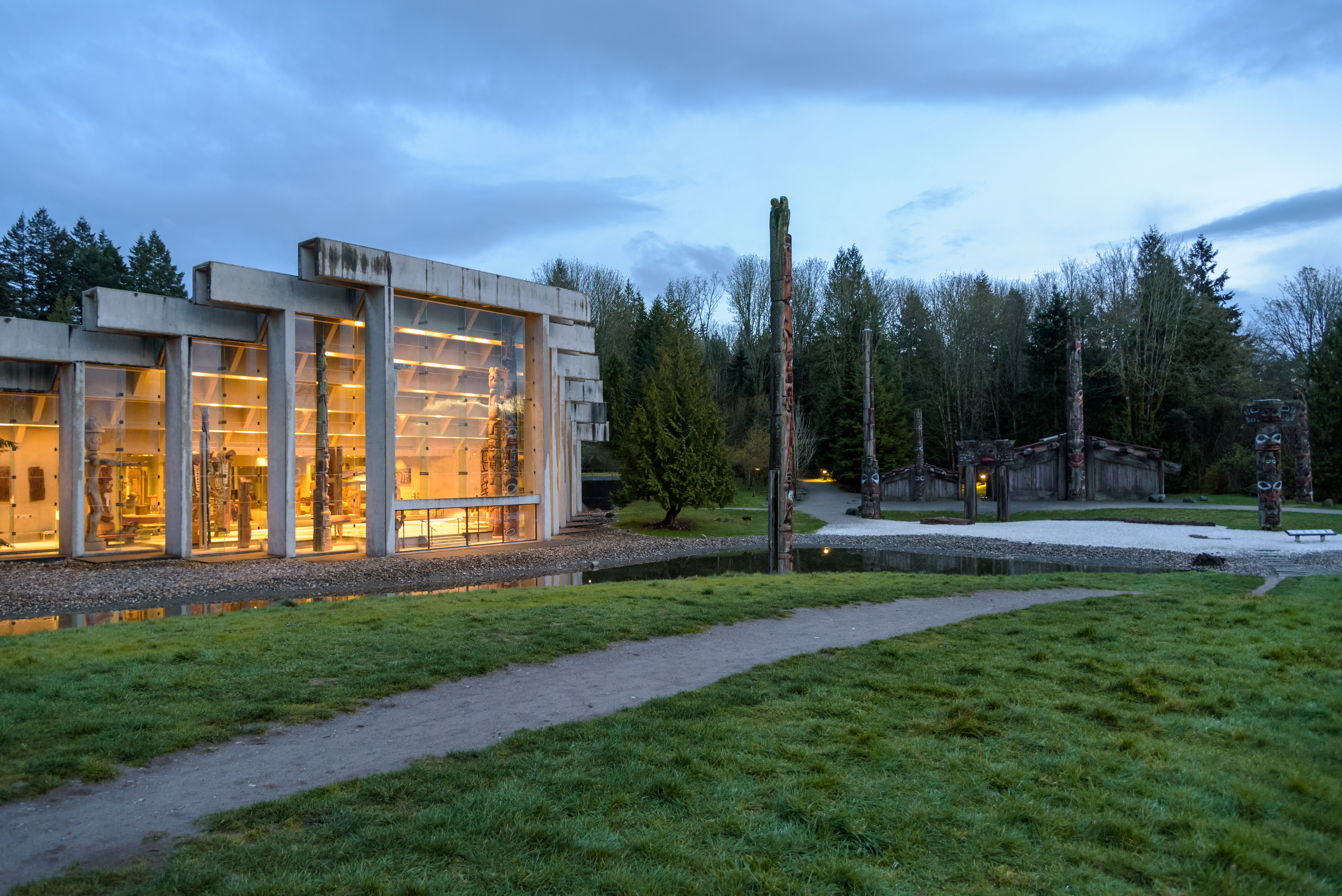 Museum of Anthropology at the University of British Columbia, Vancouver, Canada